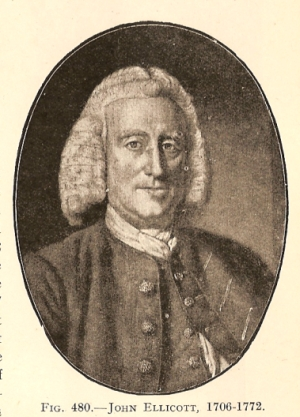 Portrait of John Ellicott (1706 - 1772), London clockmaker